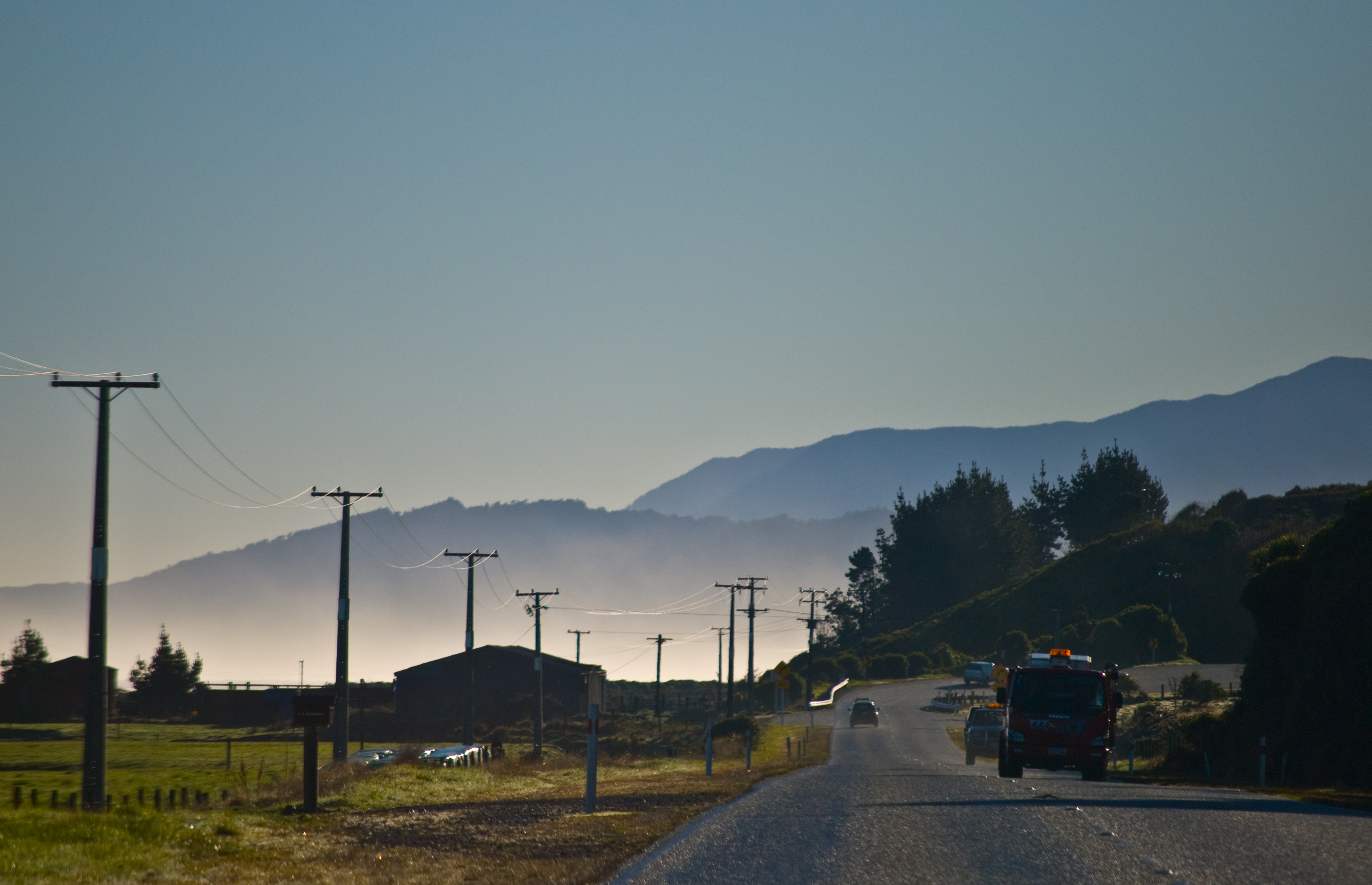 New Zealand State Highway 6, near Kumara Junction on the West Coast of the South Island.